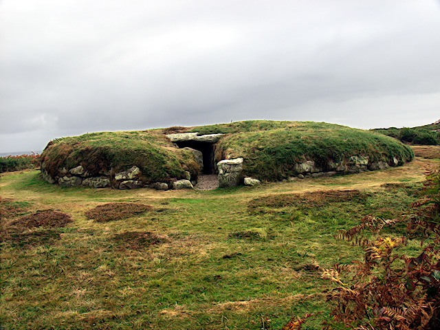 Porth Hellick Down. The largest burial chamber of at least 8 on the Down, close to a Nature Sanctuary.